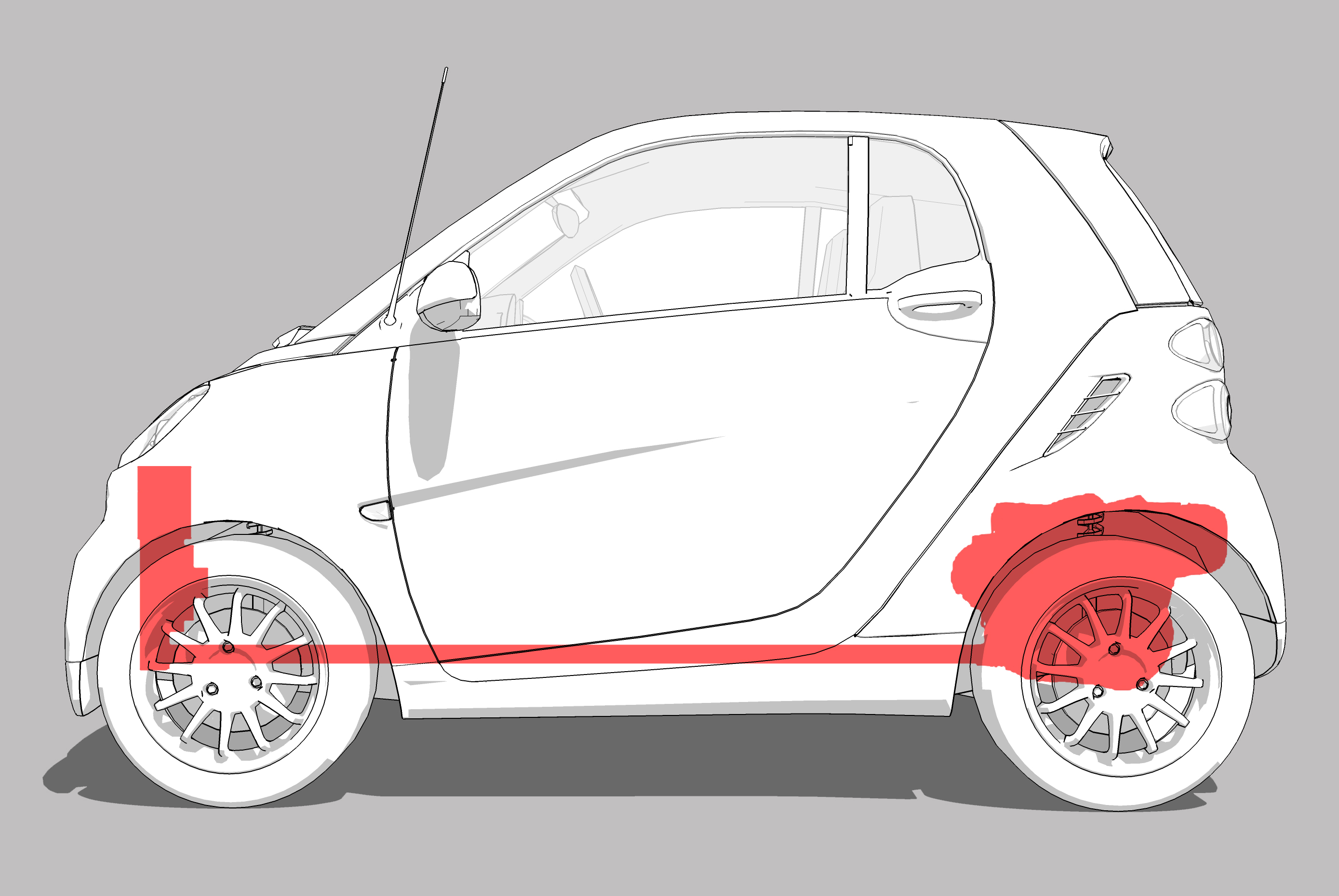 A diagram depicting the engine and cooling system location in the Smart Fortwo.